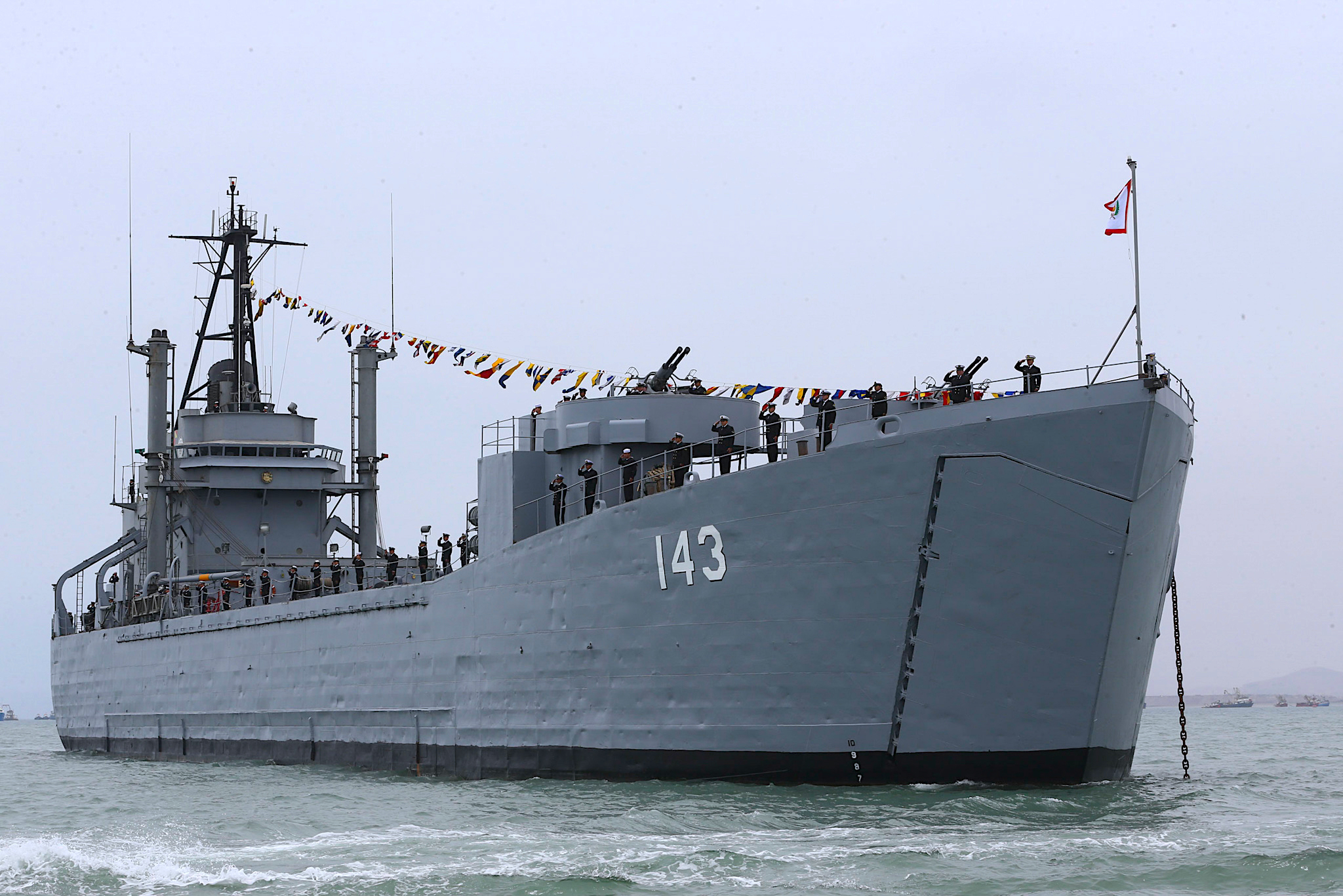 BAP Callao (DT-143) in October 2017.